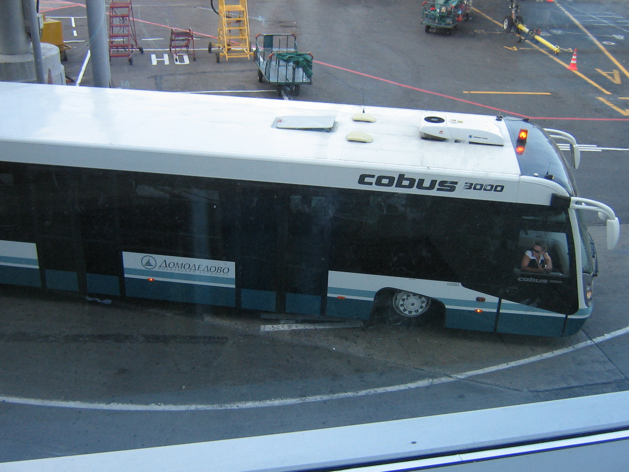 Airfield Shuttle Contrac Cobus 3000 at Domodedovo International Airport, Moscow, Russia, June 2010.